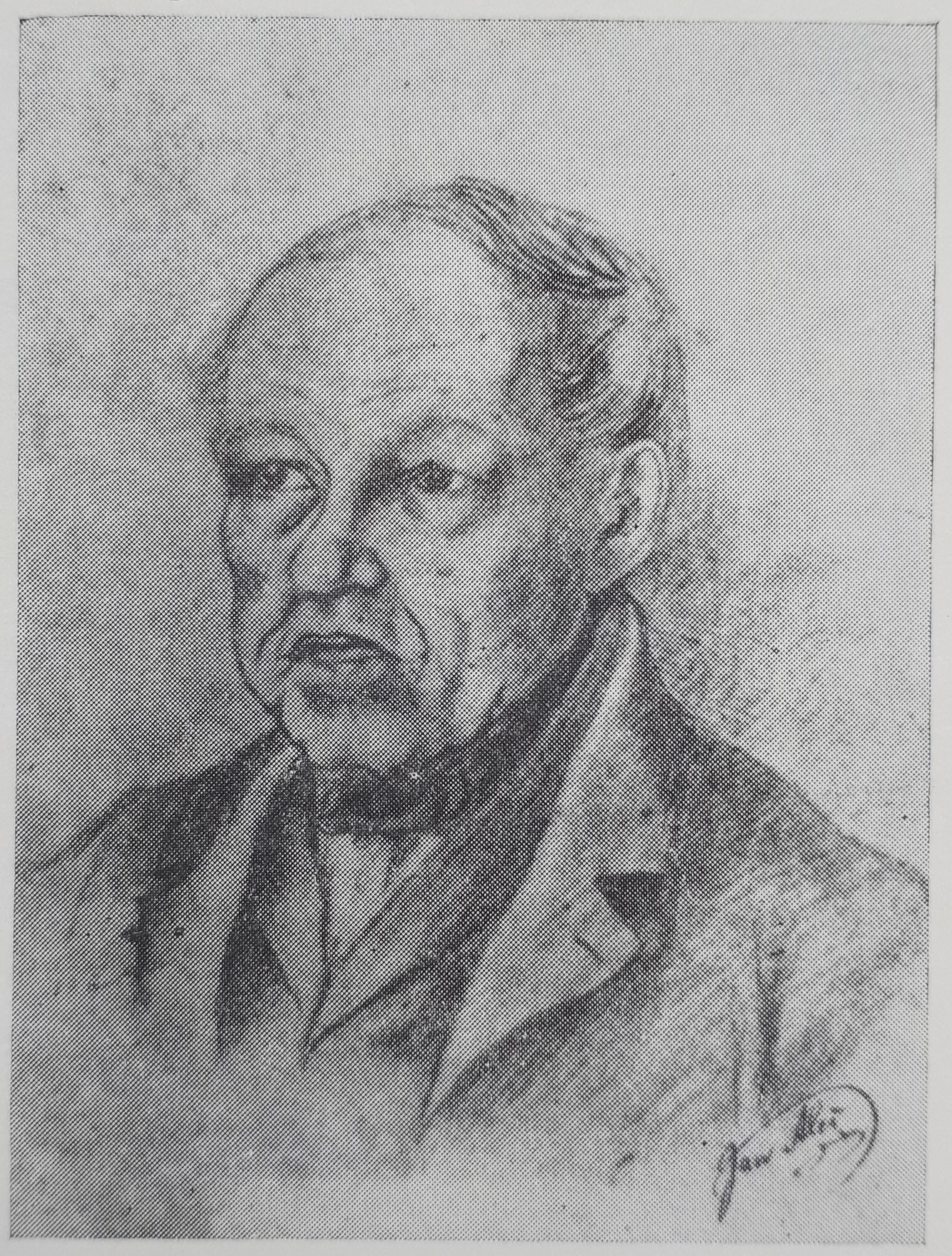 Tomáš Famfule / Thomas Famfollet; švališér Mikoláš Aleš's uncle; drawing by Mikoláš's brother Jan Aleš